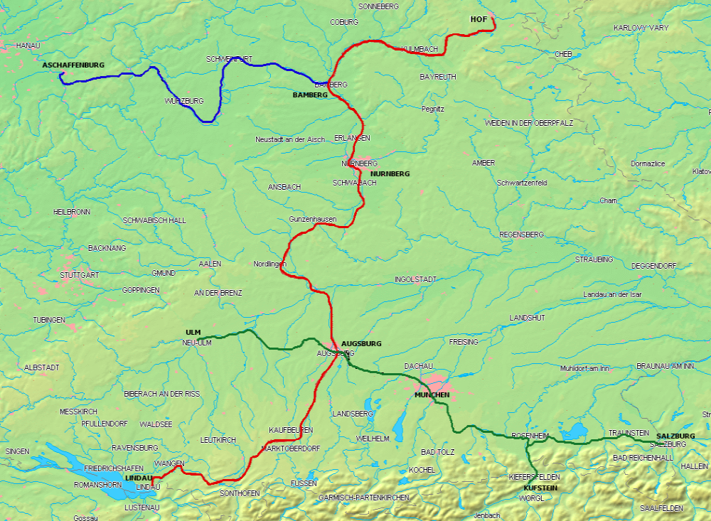 Map of the Royal Bavarian Railroads around 1844 (Ludwigsbahnen)